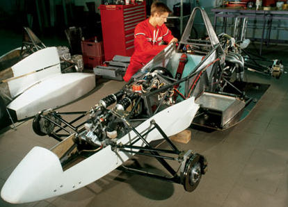 Formula RUS car